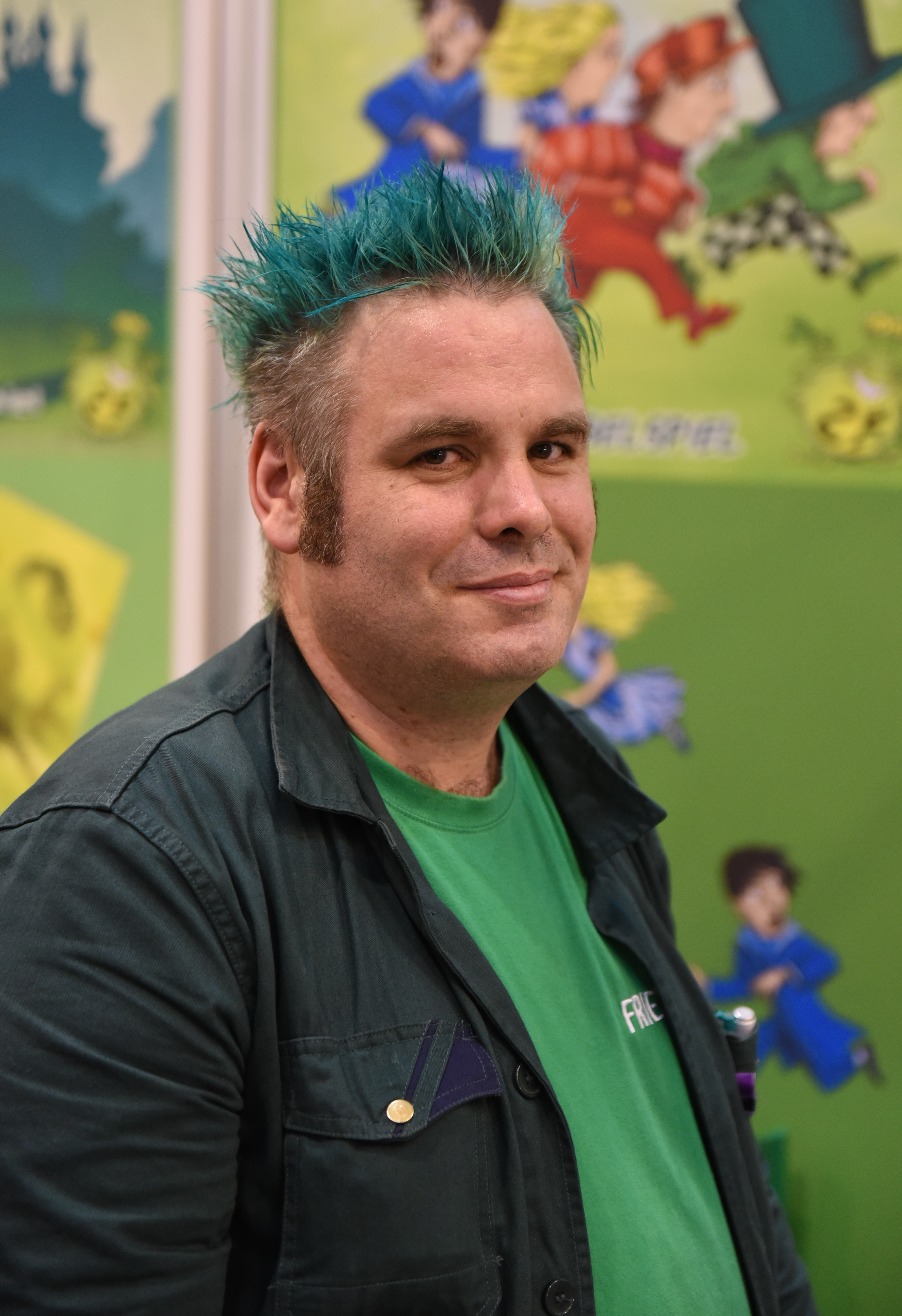 The game author Friedemann Friese at the board game fair Spiel '17 in Essen, Germany.